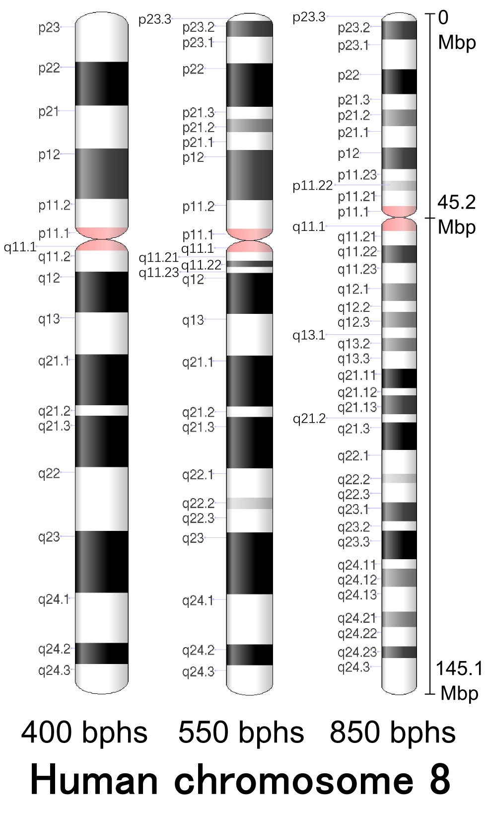 Ideograms of G-band pattern of human chromosome 8 in three different resolutions (400, 550 and 850 bphs, bands per haploid set). Different resolutions are corresponding to different band patterns observed through mitotic phase (about relation between banding resolution and mitotic phase, see, for example, Fig.3 in W Sethakulvichaia (2012)). Legend: Black and gray is Giemsa positive. Red is centromere. Light blue is variable region. Dark blue is stalk. At the right, centromere position (center) and q arm terminus position (bottom), counted from p arm terminus (top) in Mbp (mega base pairs), are labeled. Physical length (sometimes referred as "absolute length") is not labeled. Because physical length of chromosomes vary while mitosis. (typical human chromosome physical length is in the order of from several micrometers to ten and several micrometers. See, for example, Category:Human chromosome images with scale bars.).